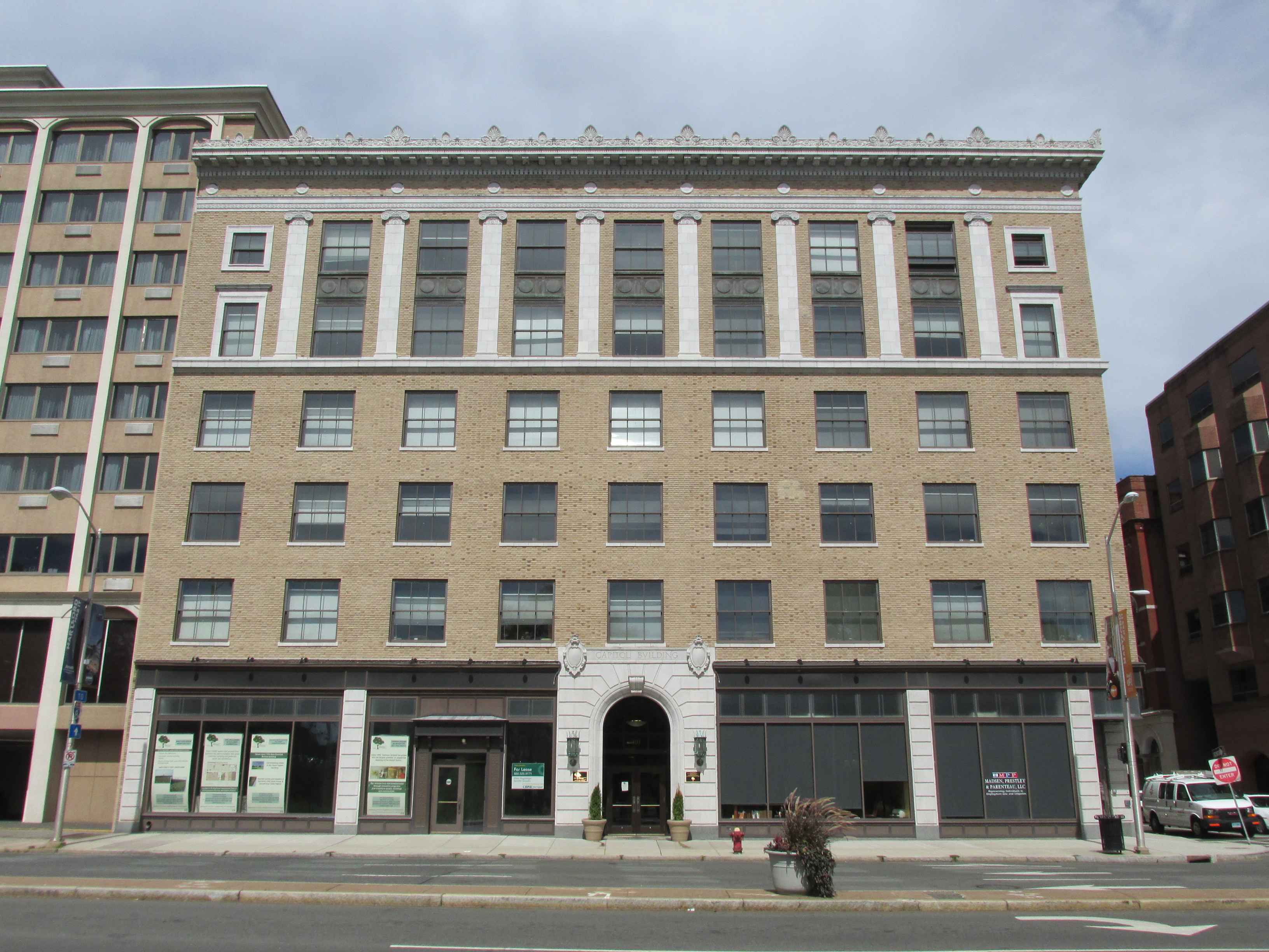 High Street Historic District, Hartford Connecticut